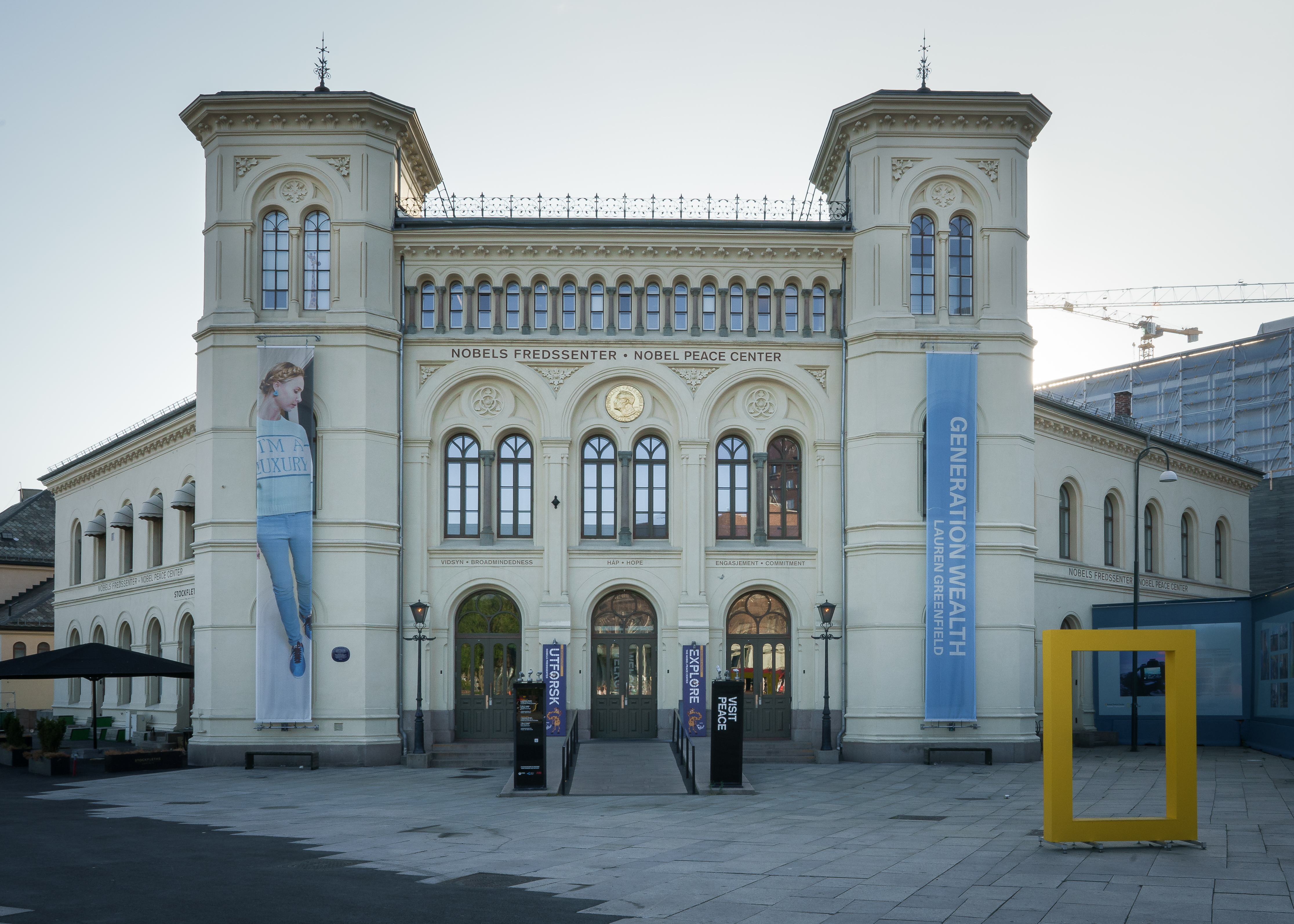 Nobel Peace Center, Oslo